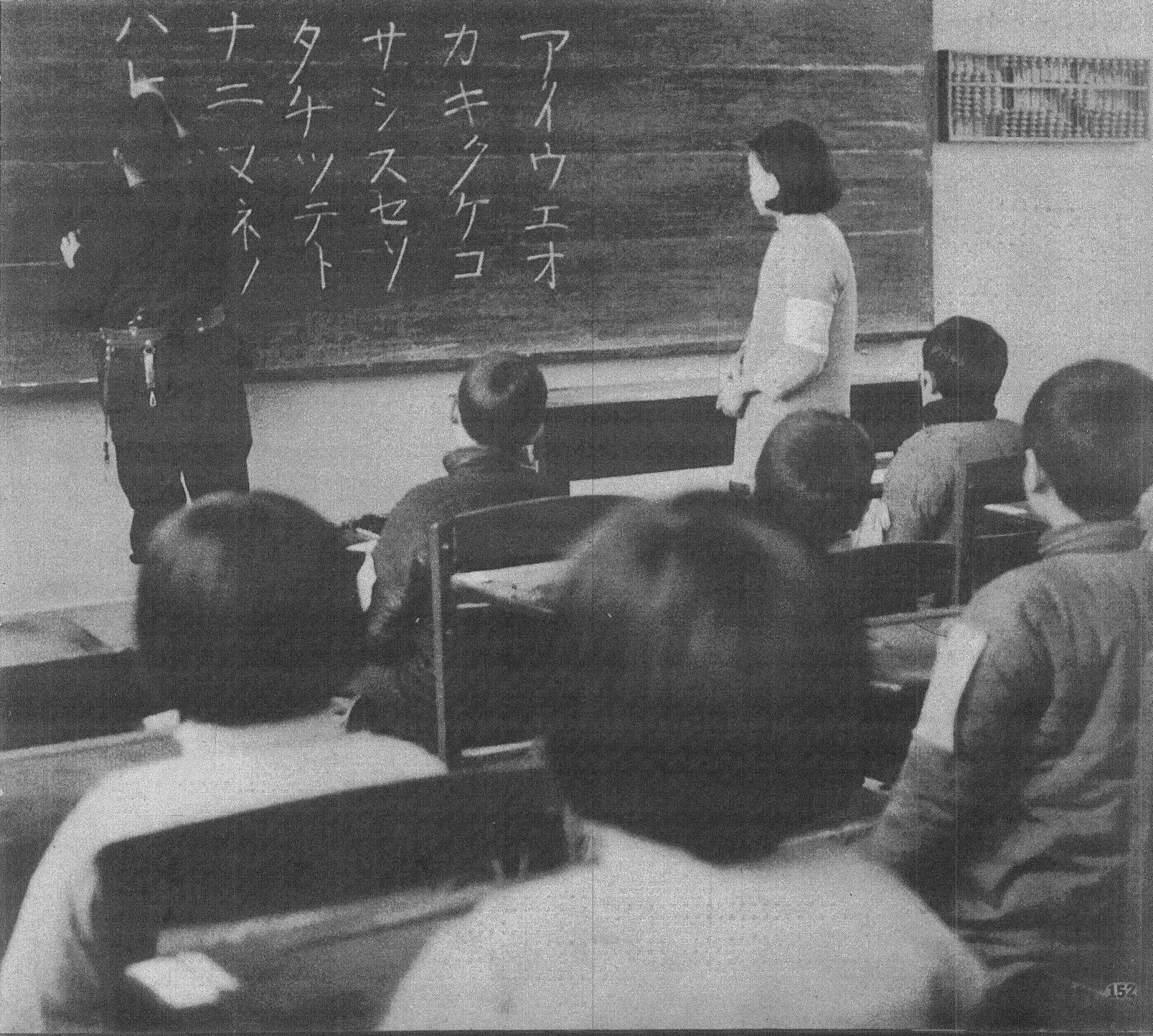 Japanese language class by a Japanese officer in Zhenjiang, Jiangsu, China(January 20, 1938)